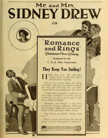 Advertisement in Moving Picture World, Jan 1919 for Romance and Rings (1919) with Mr. & Mrs. Sidney Drew.